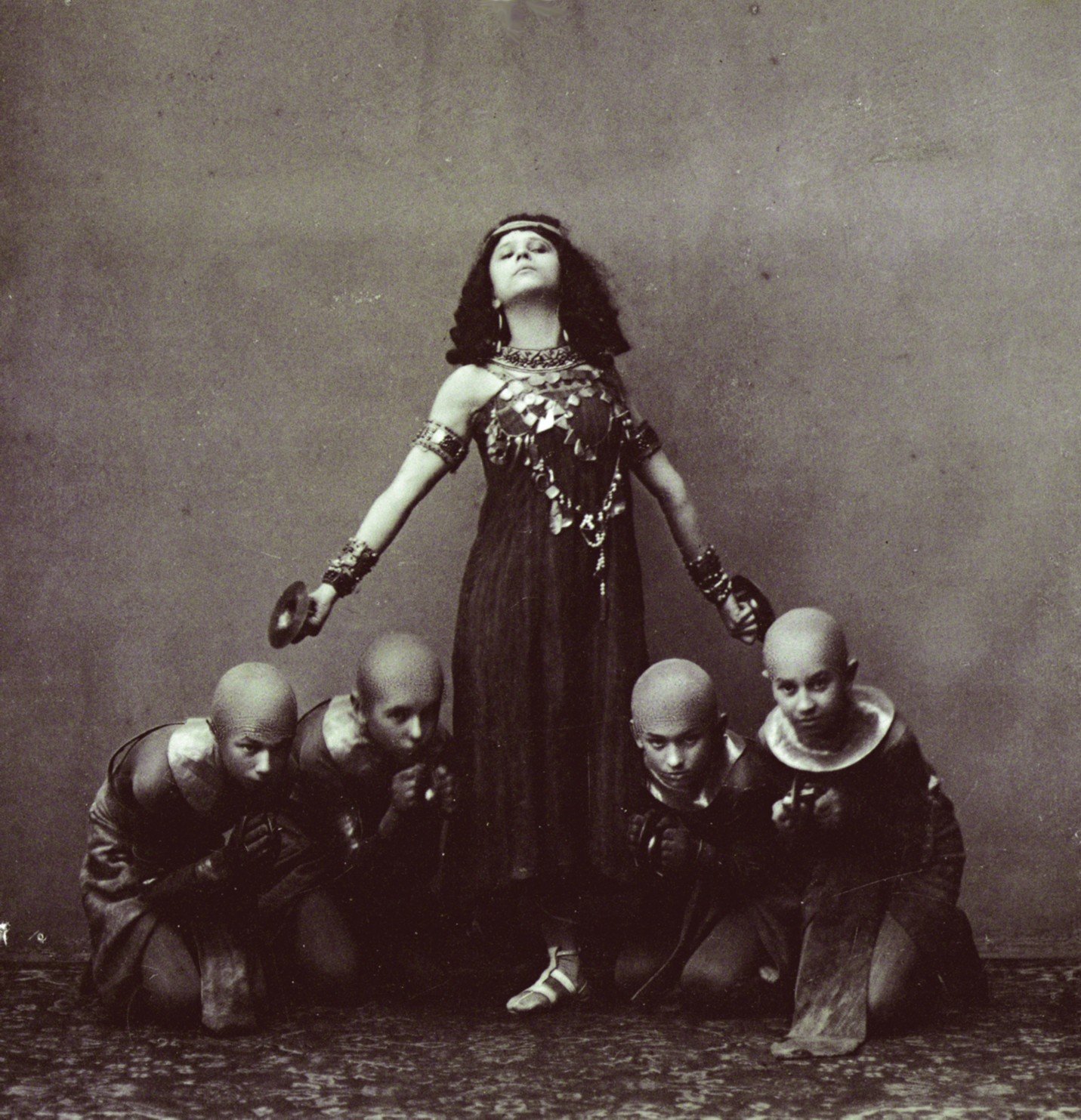 Photo of the ballerina Sofia Fedorova (1879-1963) costumed as the slave Hita with unidentified children in the choreographer Alexander Gorsky's (1871-1924) revival of the choreographer Marius Petipa (1818-1910) and the composer Cesare Pugni's (1902-1870) ballet The Pharaoh's Daughter.